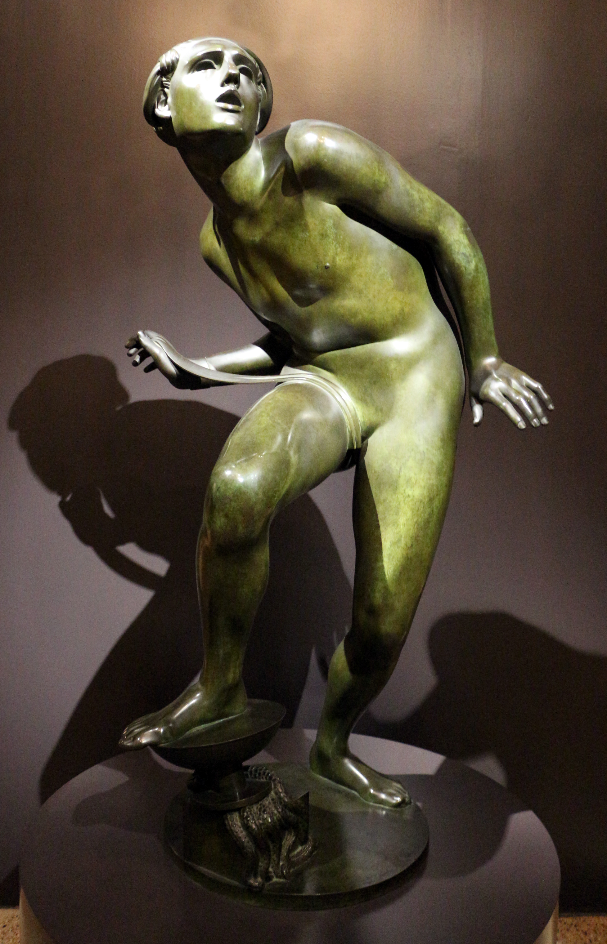 Il Puro Folle (Parsifal) by Adolfo Wildt